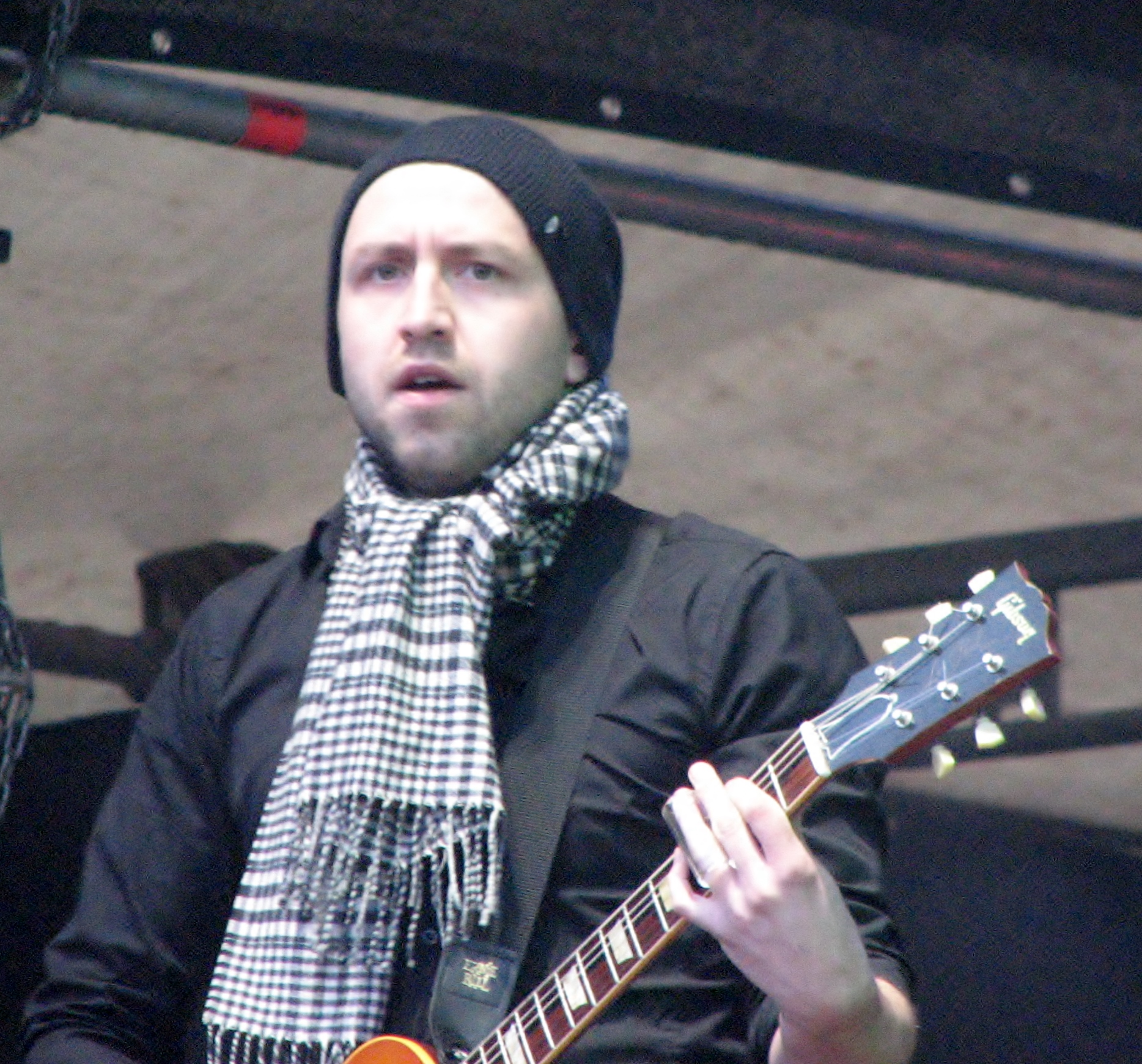 Taavi Langi performing in a concert